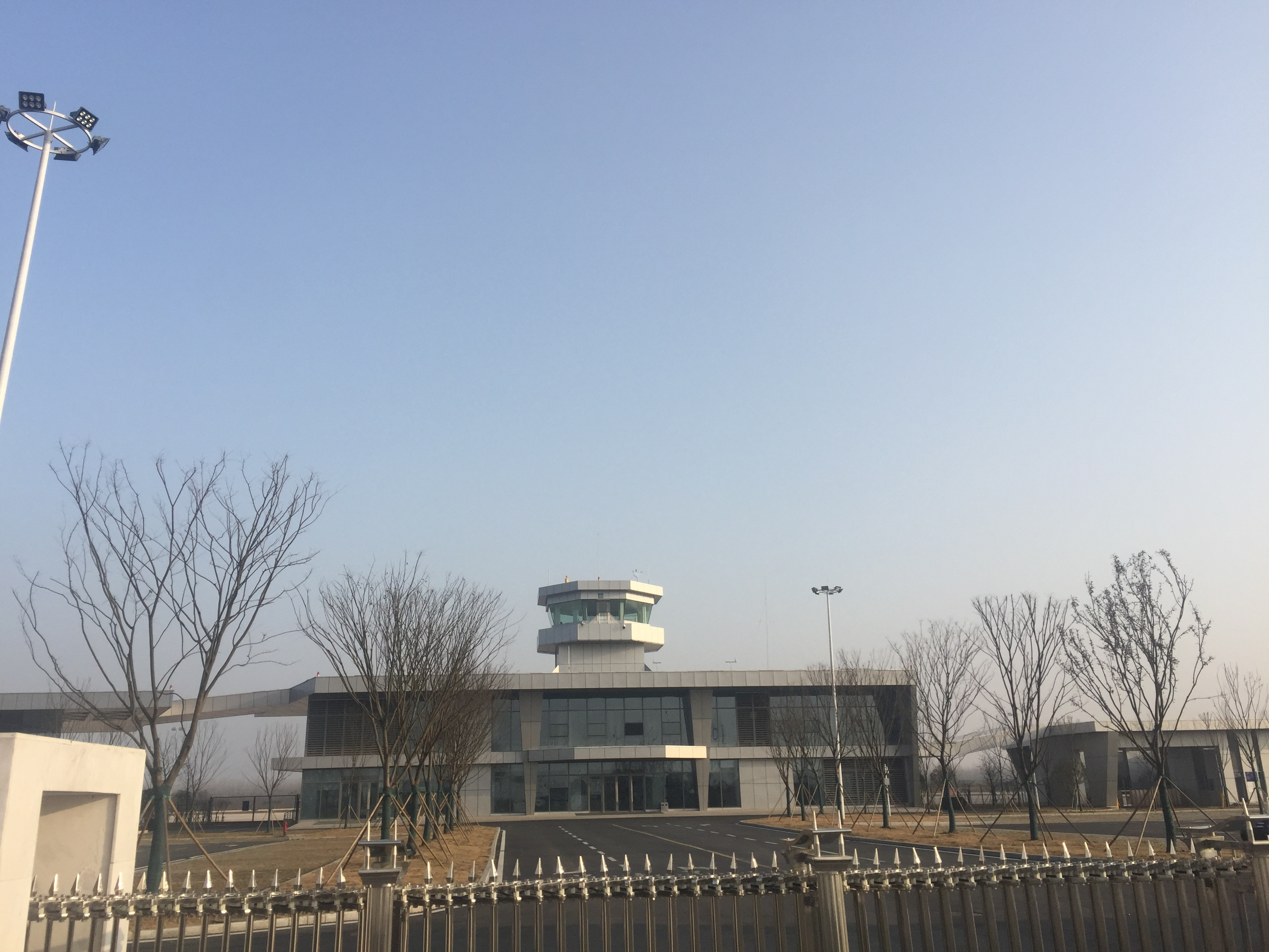 control tower of Hannan